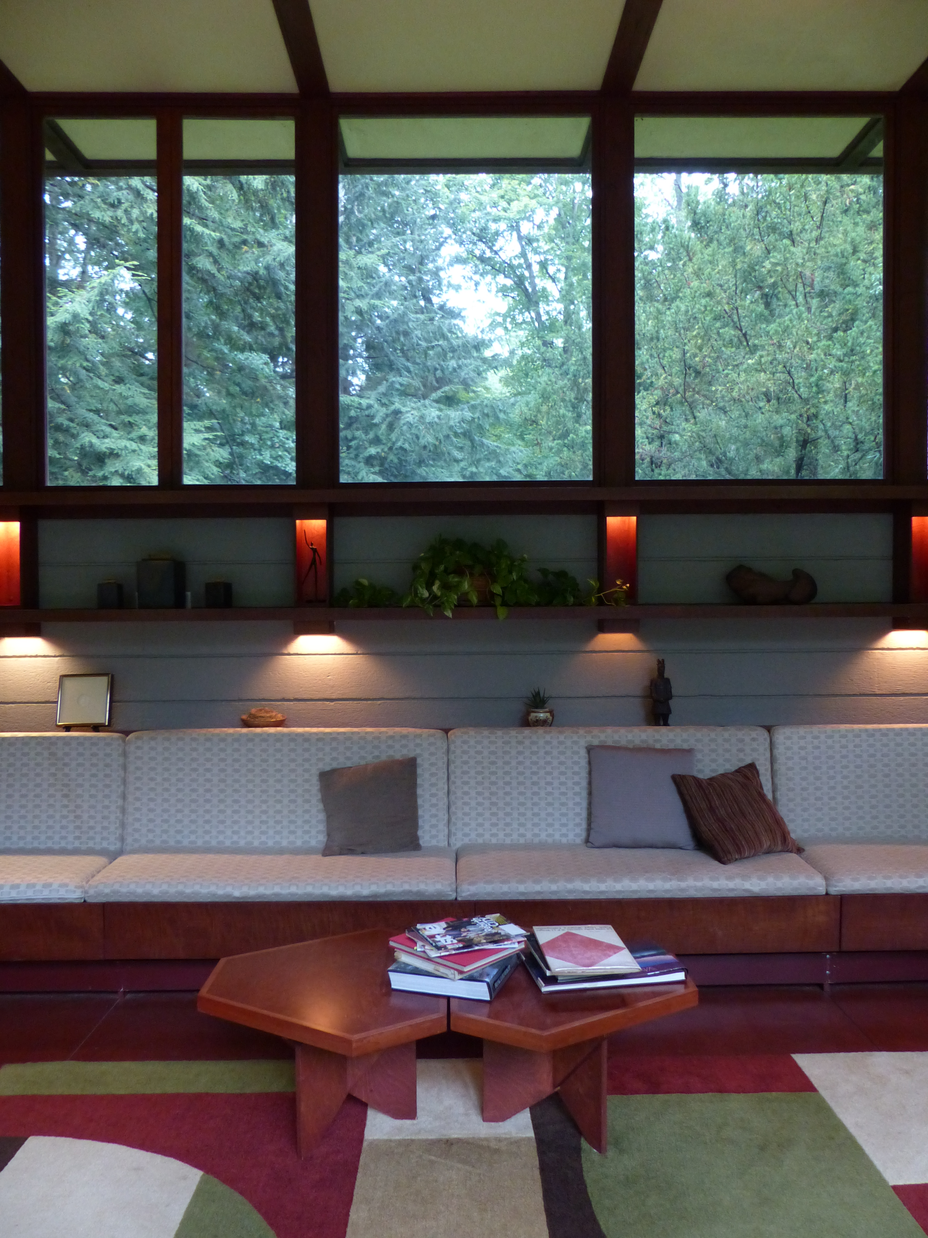 lower windows, wall shelves, bench row